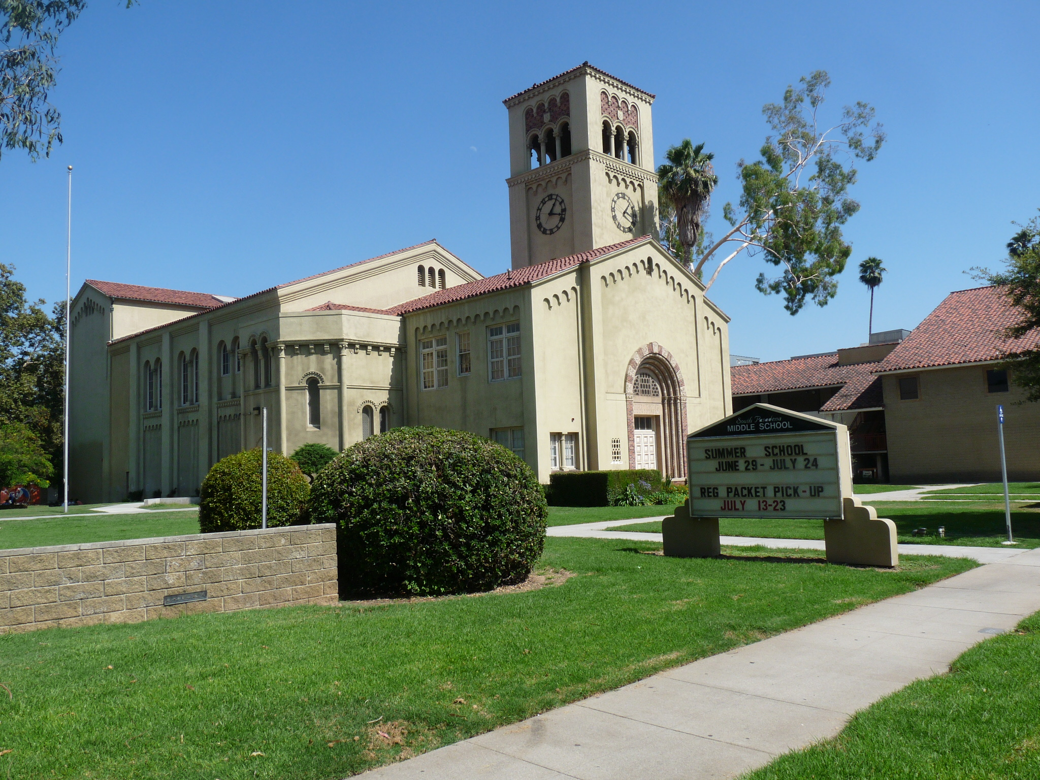 South Pasadena Middle School, formerly South Pasadena Junior High School. South Pasadena, Los Angeles County, California.